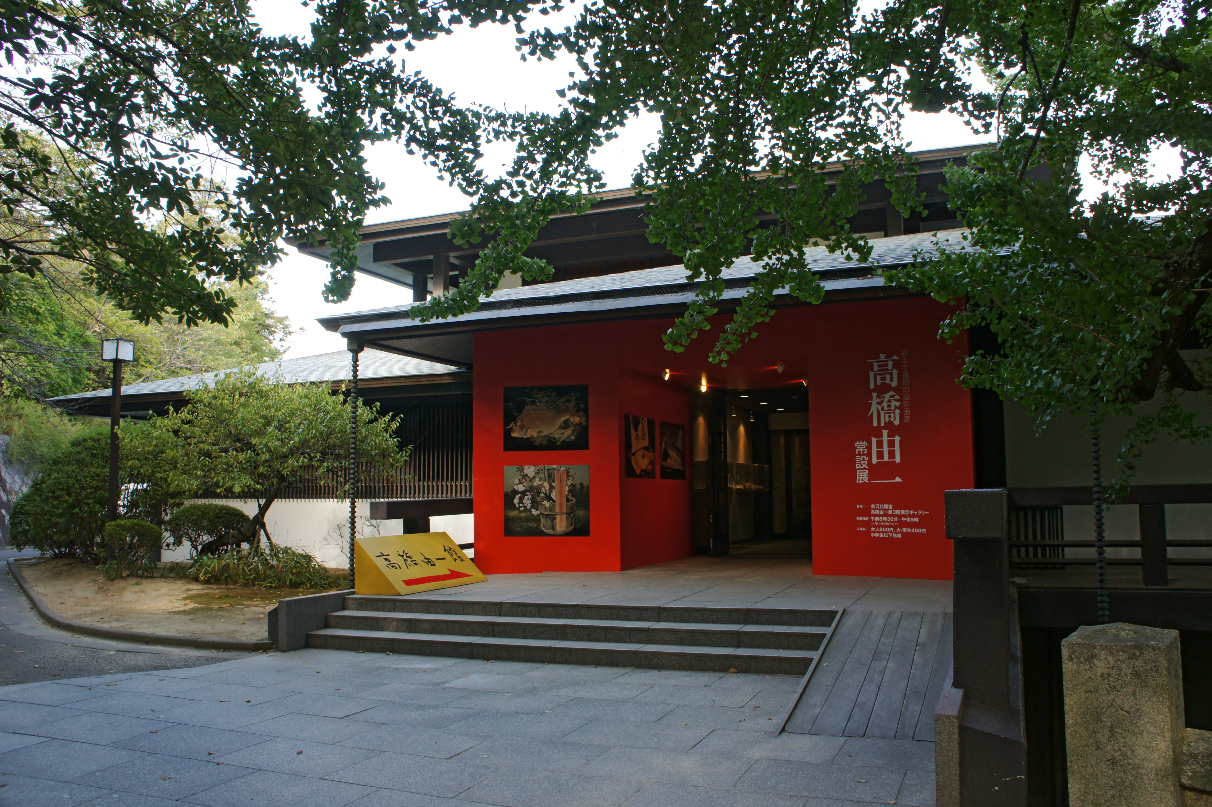 Takahashi Yuichi-kan (Takahashi Yuichi Museum of Art) in Kotohira Gu, Kotohira, Kagawa prefecture, Japan.